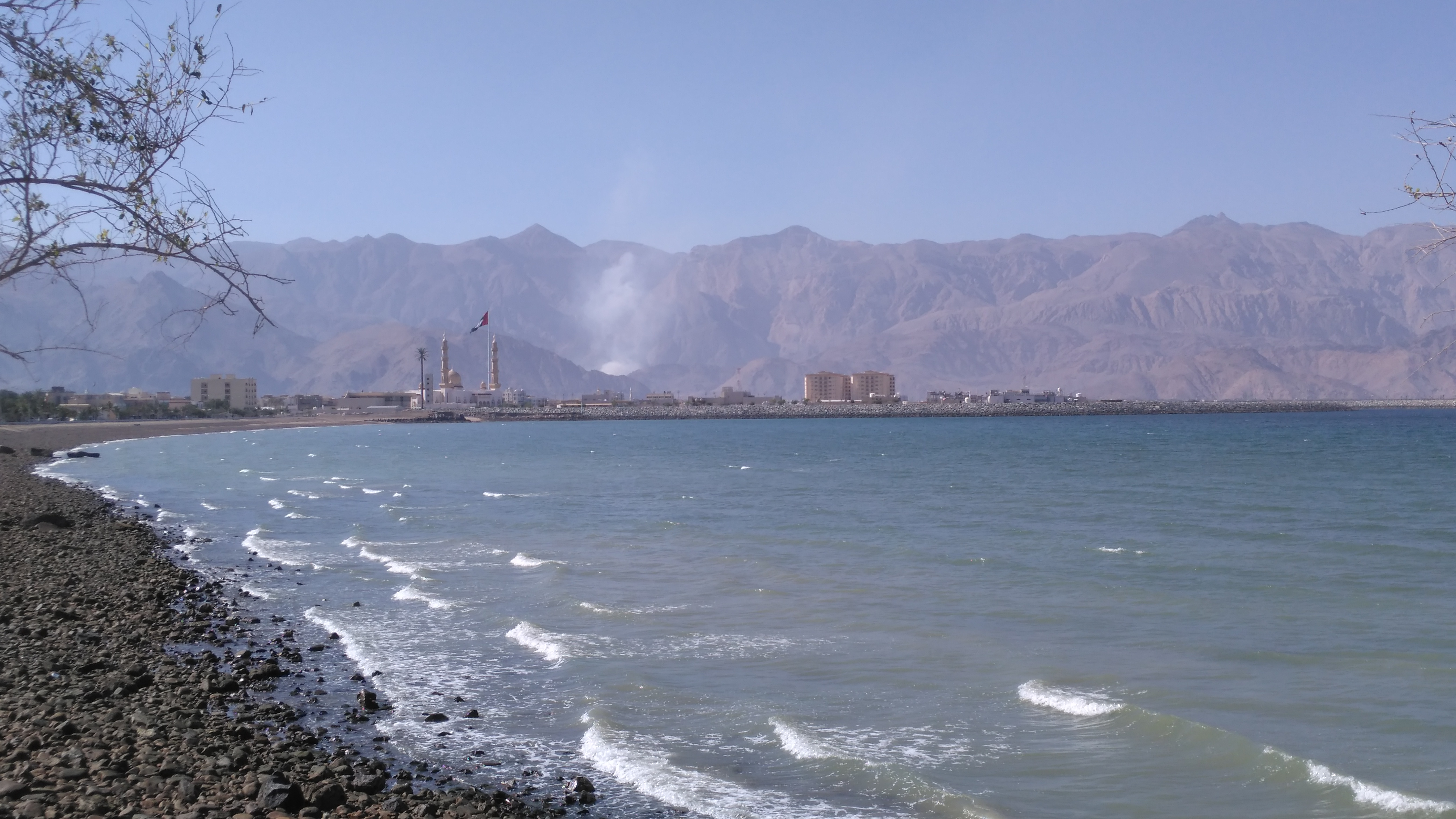 UAE -OMAN BOARDER. This is a monument in the United Arab Emirates identified by the ID D-10